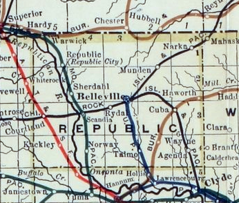 Stouffer's Railroad Map of Kansas, 1915-1918, Republic County.